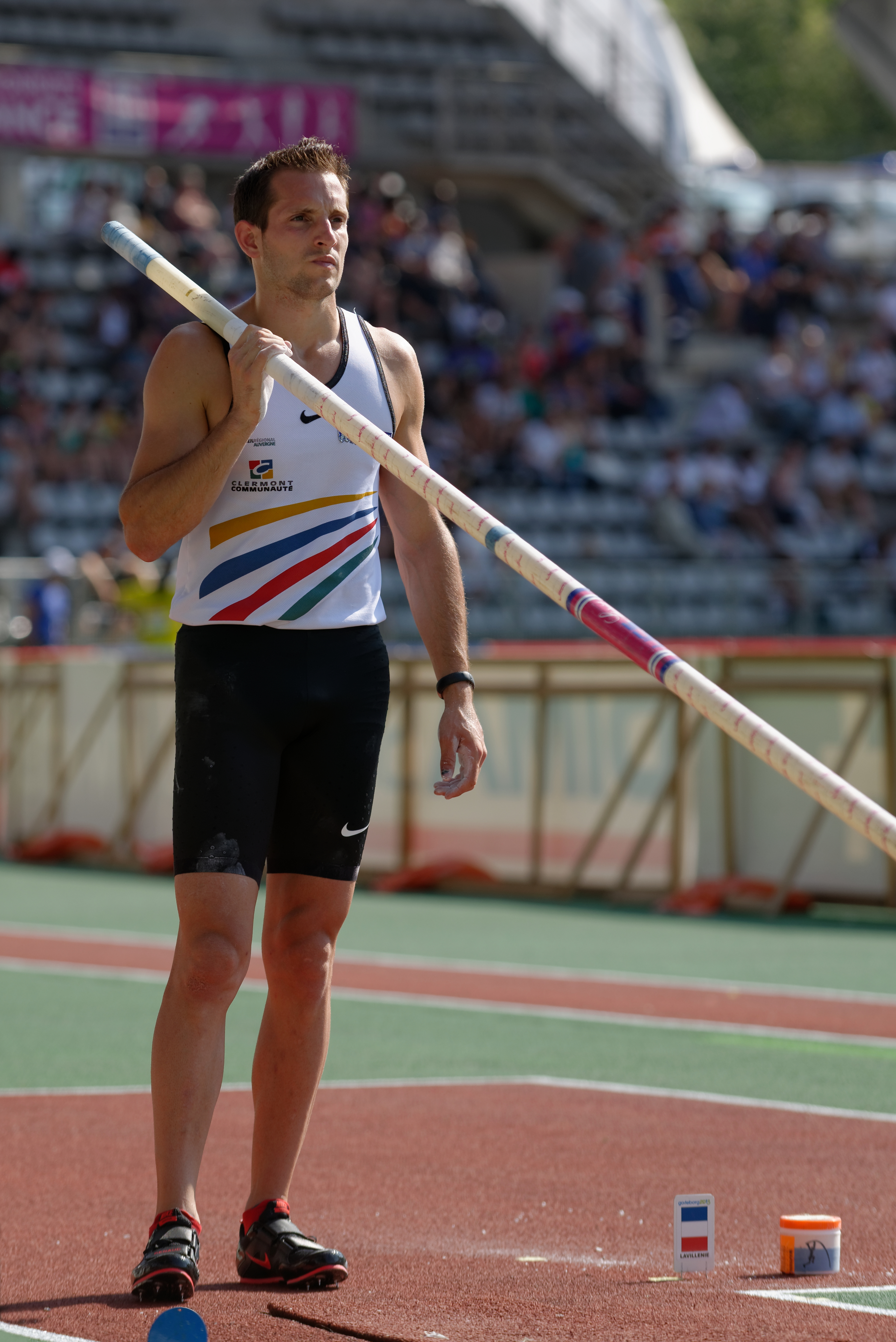 Renaud Lavillenie competes in the men's pole vault final during the French Athletics Championships 2013 at Stade Charléty in Paris, 14 July 2013.